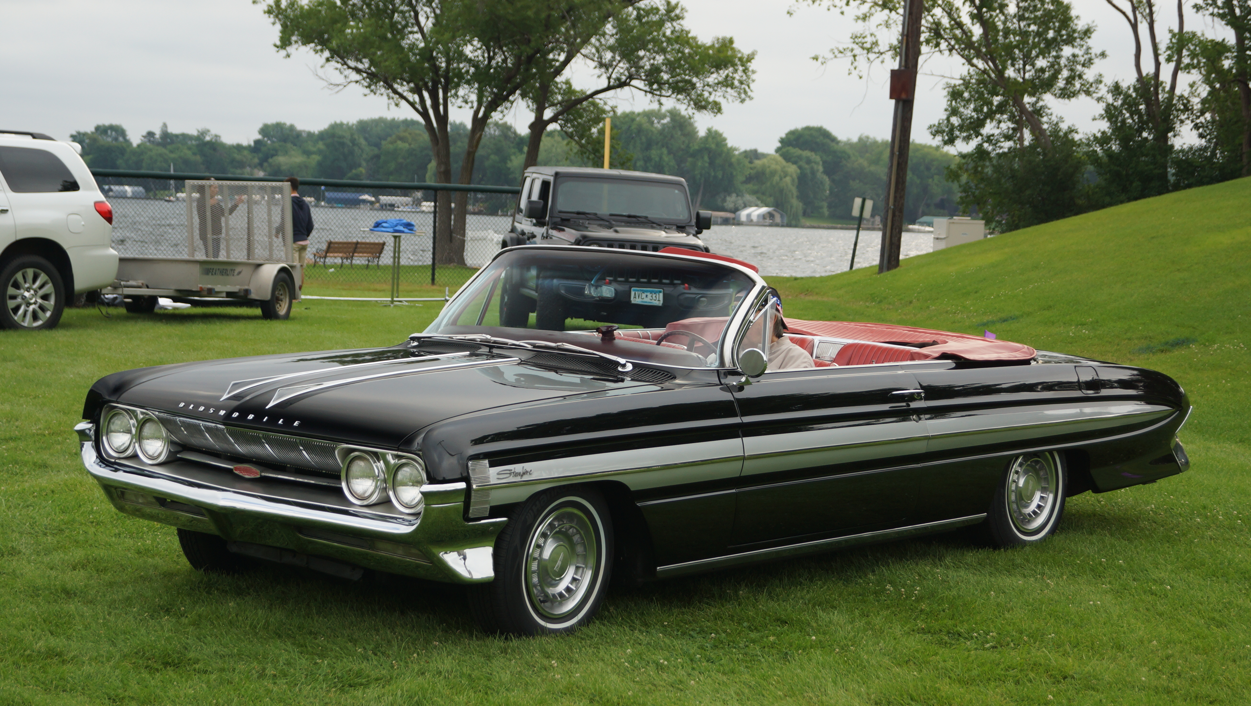 10,000 Lakes Concours d'Elegance Excelsior Commons Excelsior, Minnesota July 22, 2018